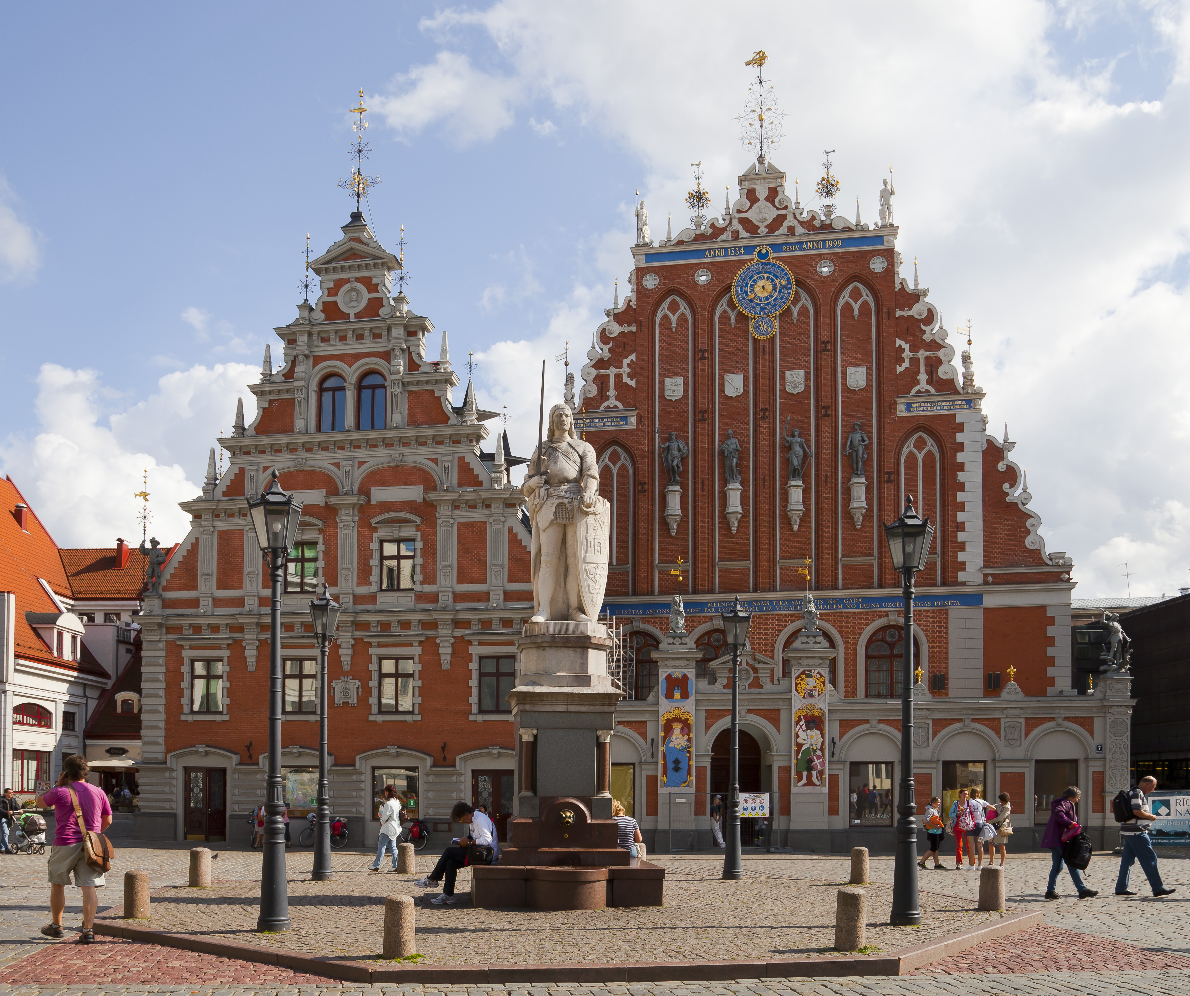 Town Hall Square, Riga, Latvia